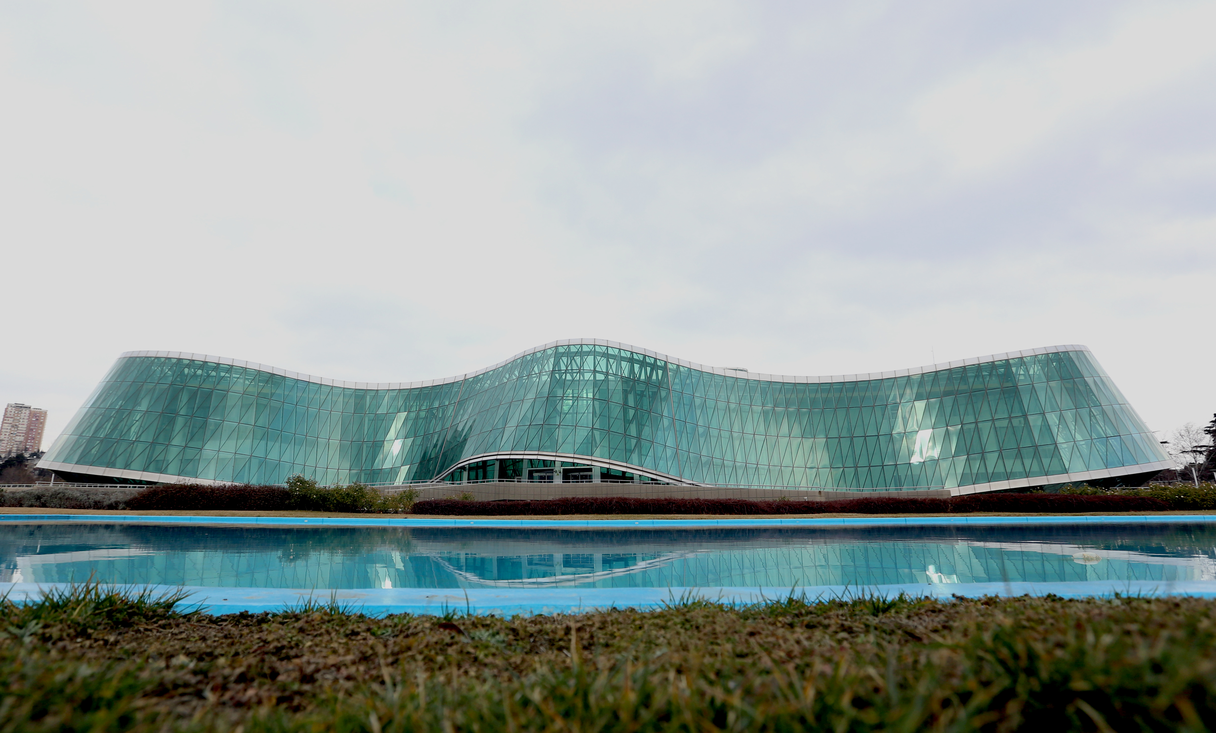 Building of Ministry of Internal Affairs - Patrol Police Department